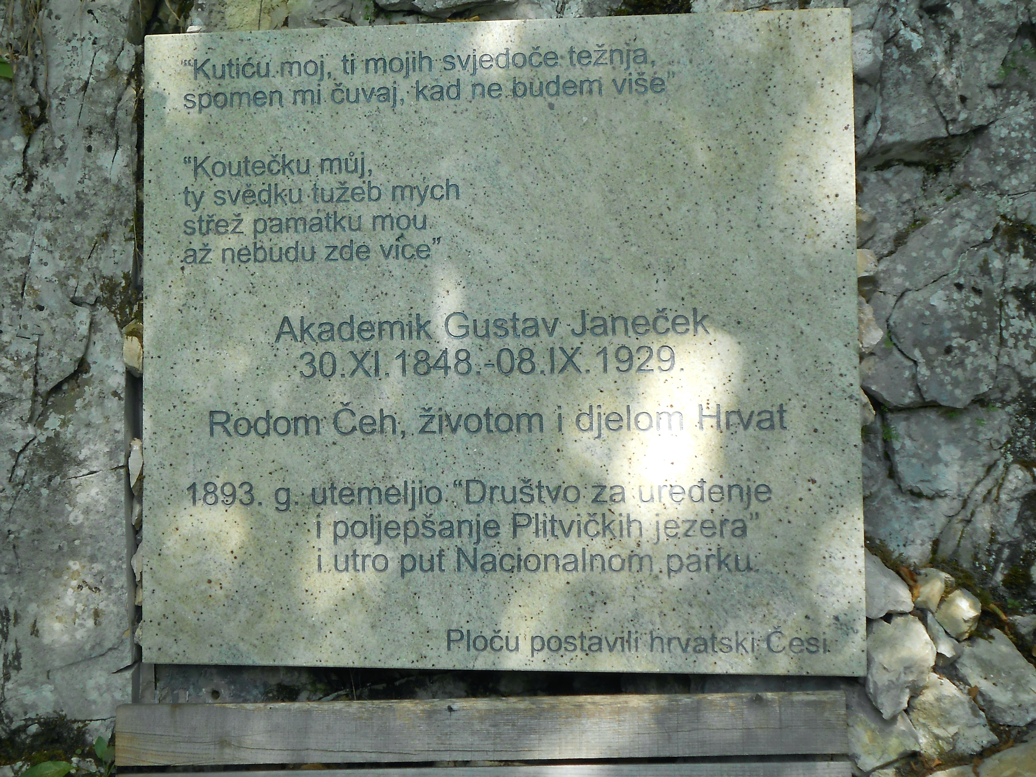 Plate Gustav Janeček in Plitvice Lakes National Park.